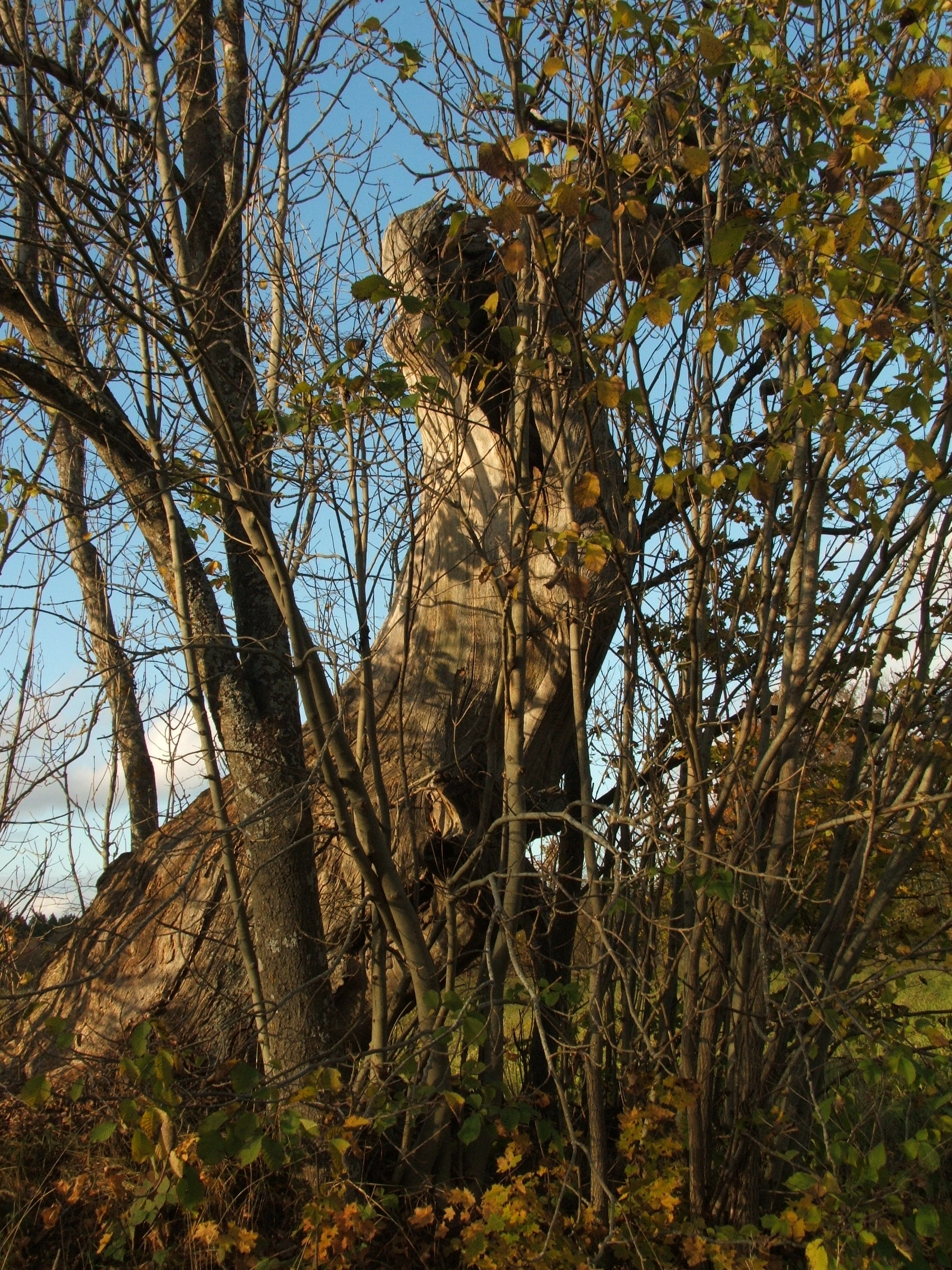 Sacred oak "Võlla tamm" in Võlla, Muhumaa, Estonia